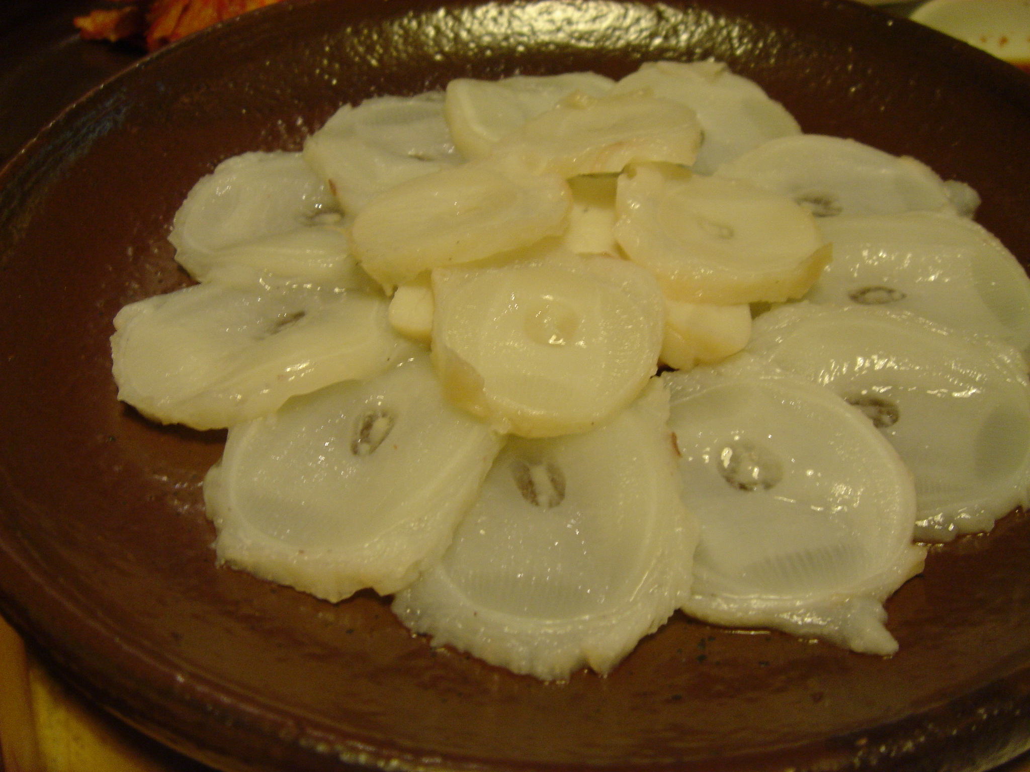 Muneohoe, Korean raw sliced octopus